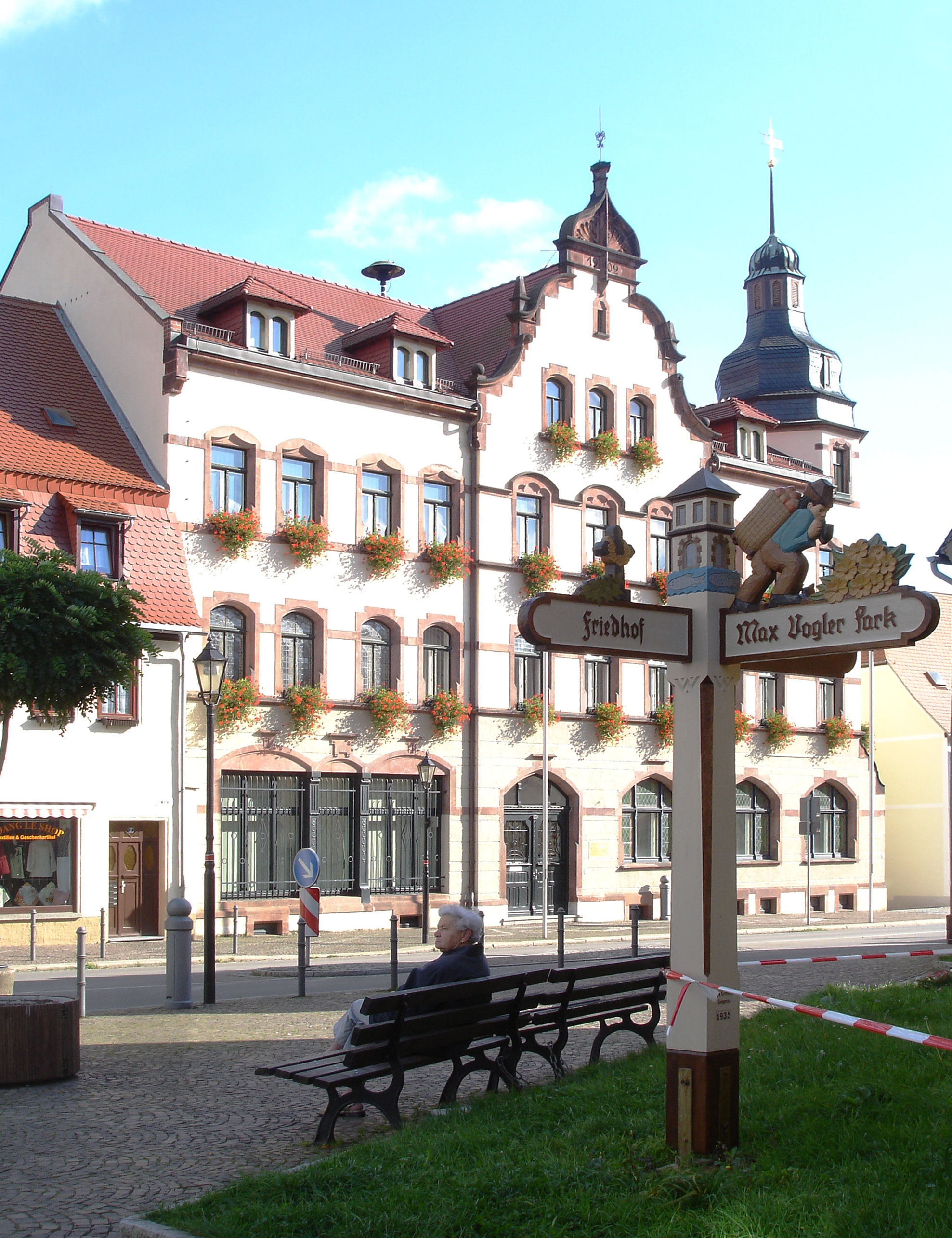 Townhouse of Lunzenau